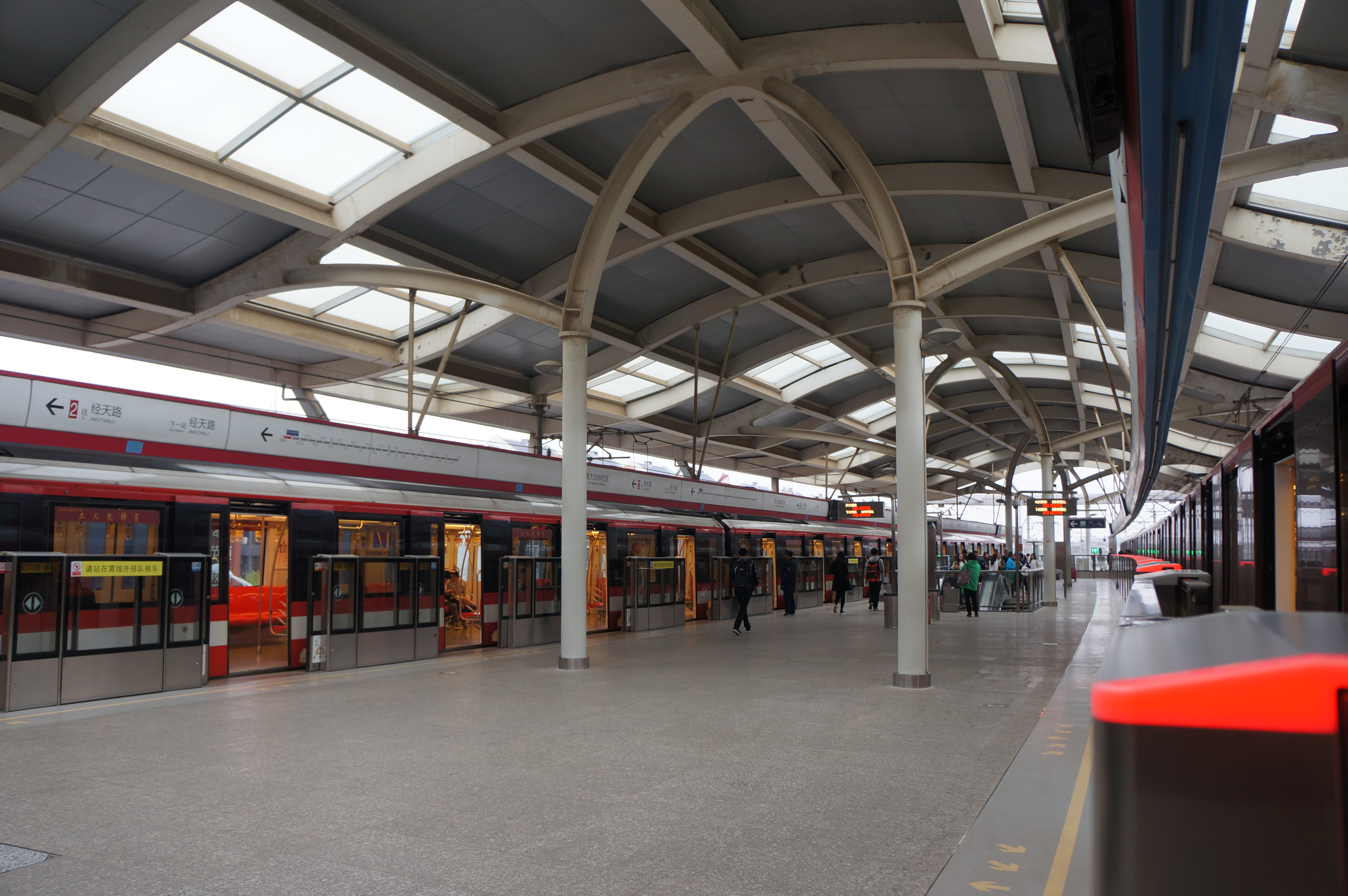 201704 NJU Xianlin Campus Station, every station on east NJM L2 has different design.